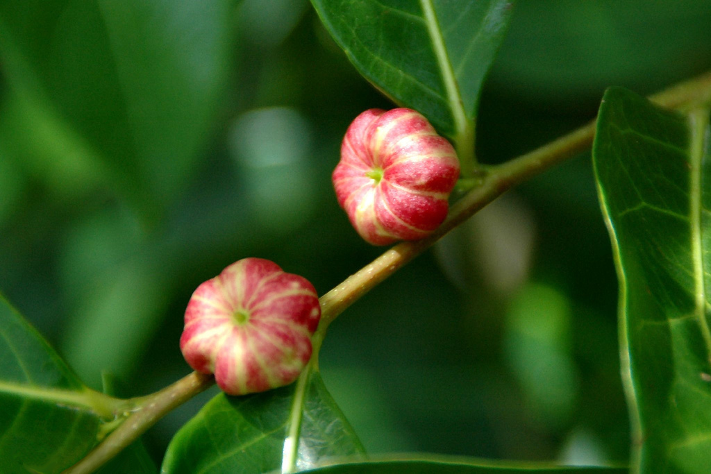 Mature fruit of Glochidion ferdinandi - Cheese tree